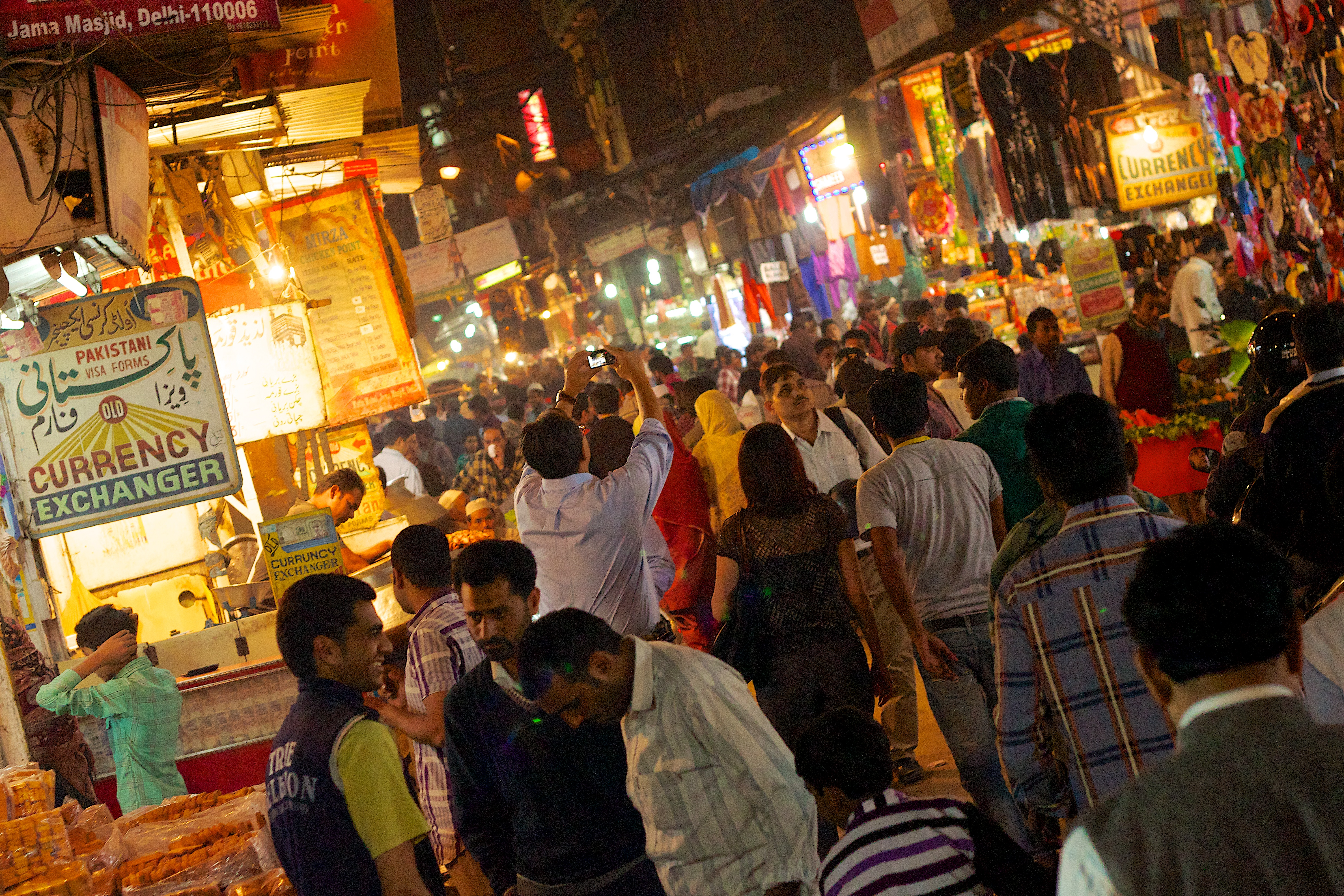 Streets near Jama Masjid, Delhi